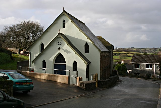 St Dominick Methodist Church Built in 1896 according to the inscription above the door.